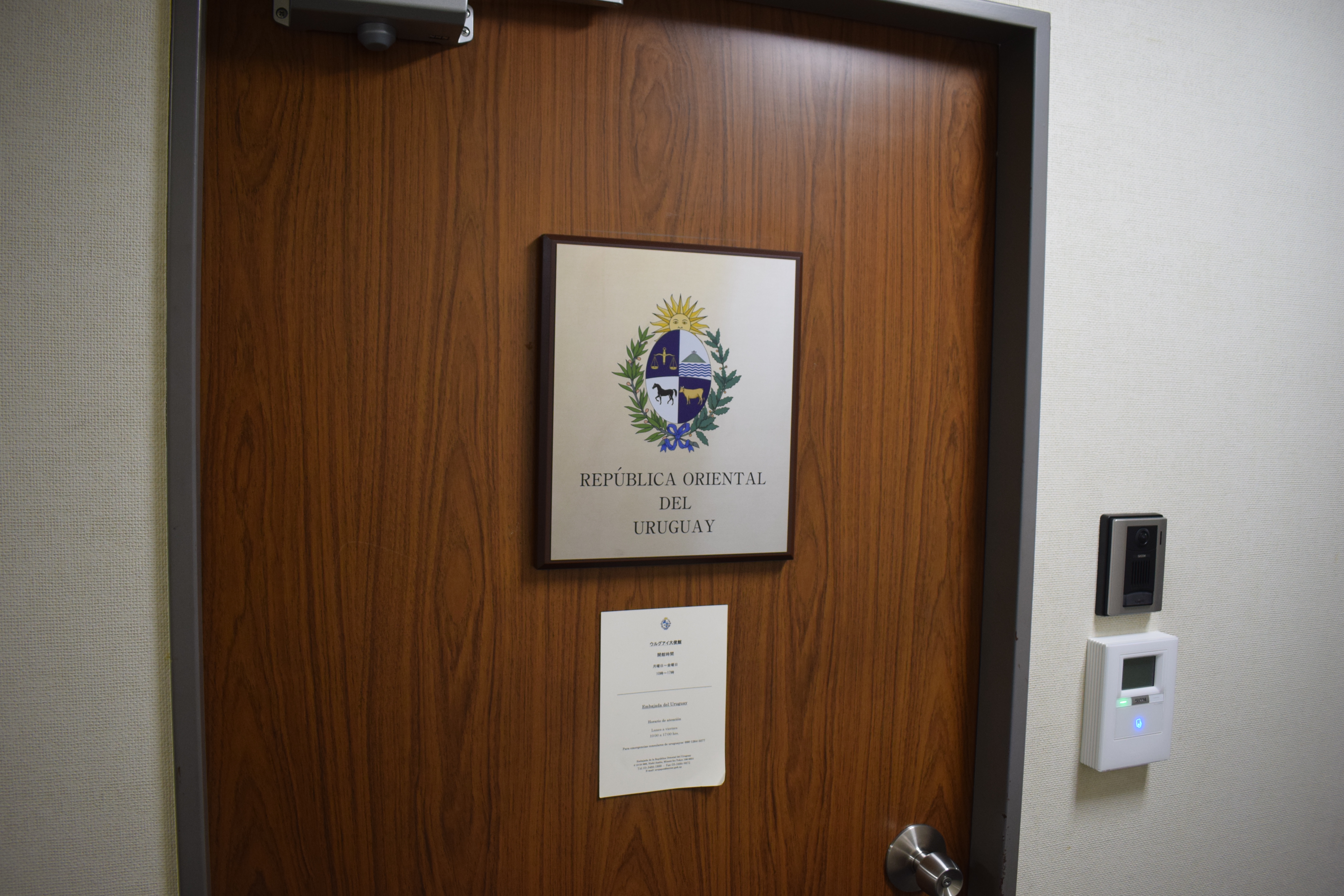 Embassy of Uruguay in Tokyo, Japan